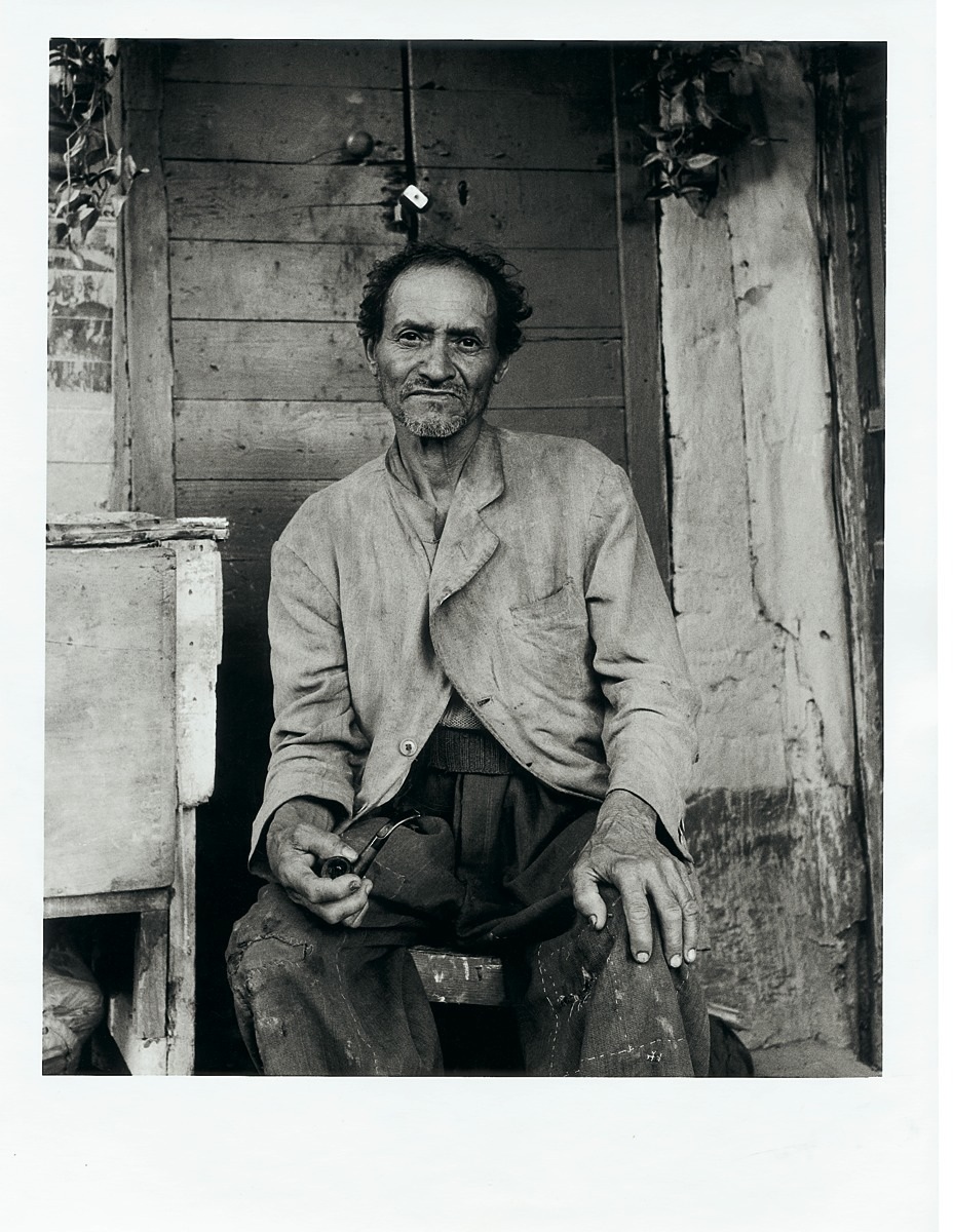 Venezuelan naïve artist Bárbaro Rivas (1893-1967) in his house of Petare.